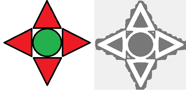 Output of HMRF-EM segmentation of color image into 3 clusters